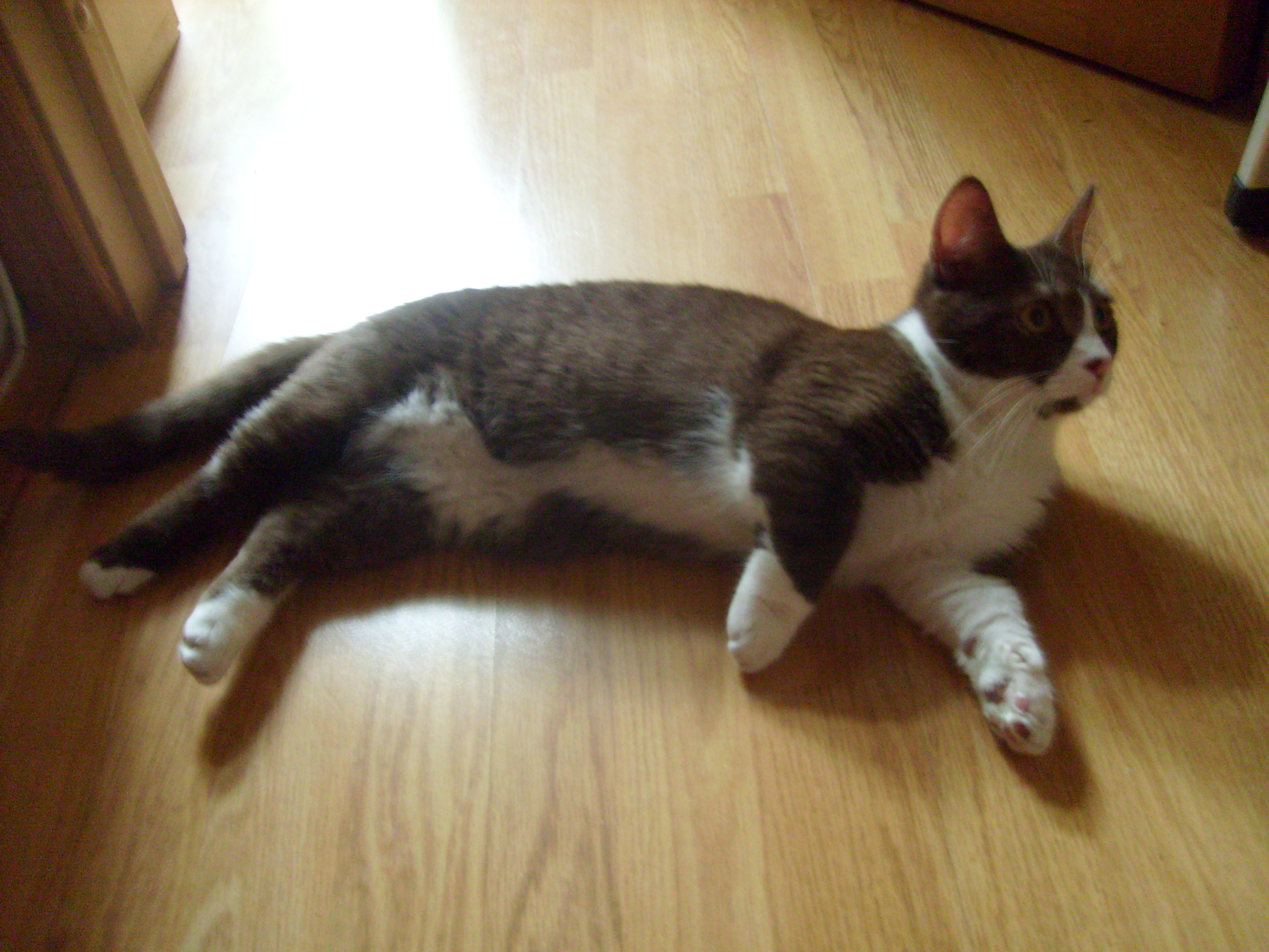 Munchkin cat